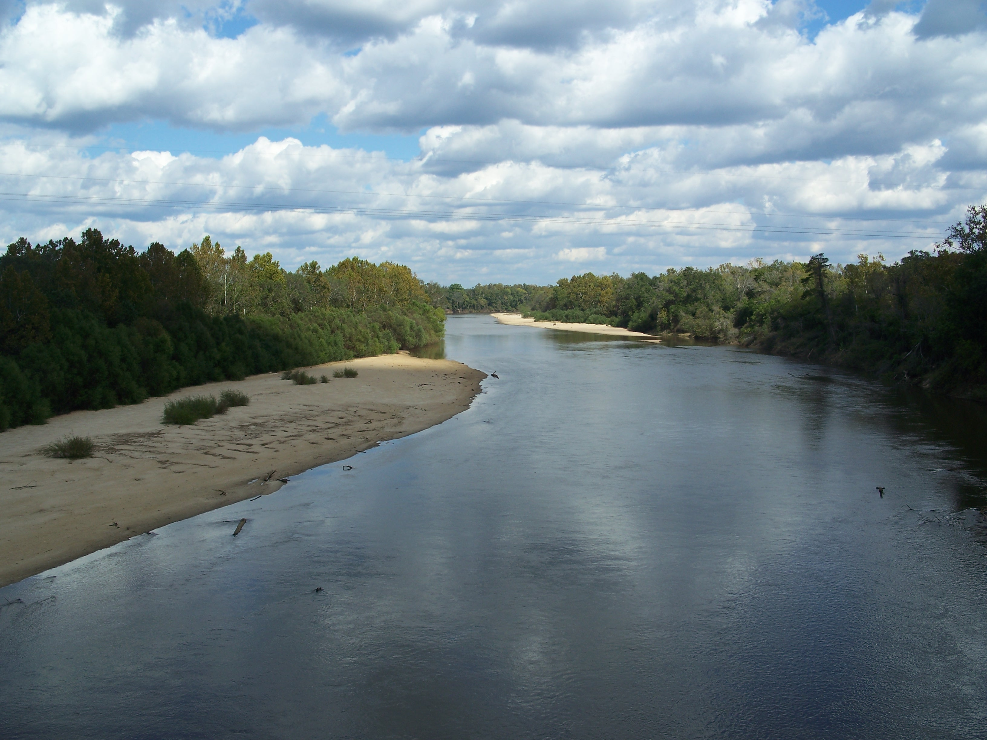 Holmes County, Florida, near Pittman: Choctawatchee River from the SR 2 bridge, looking north